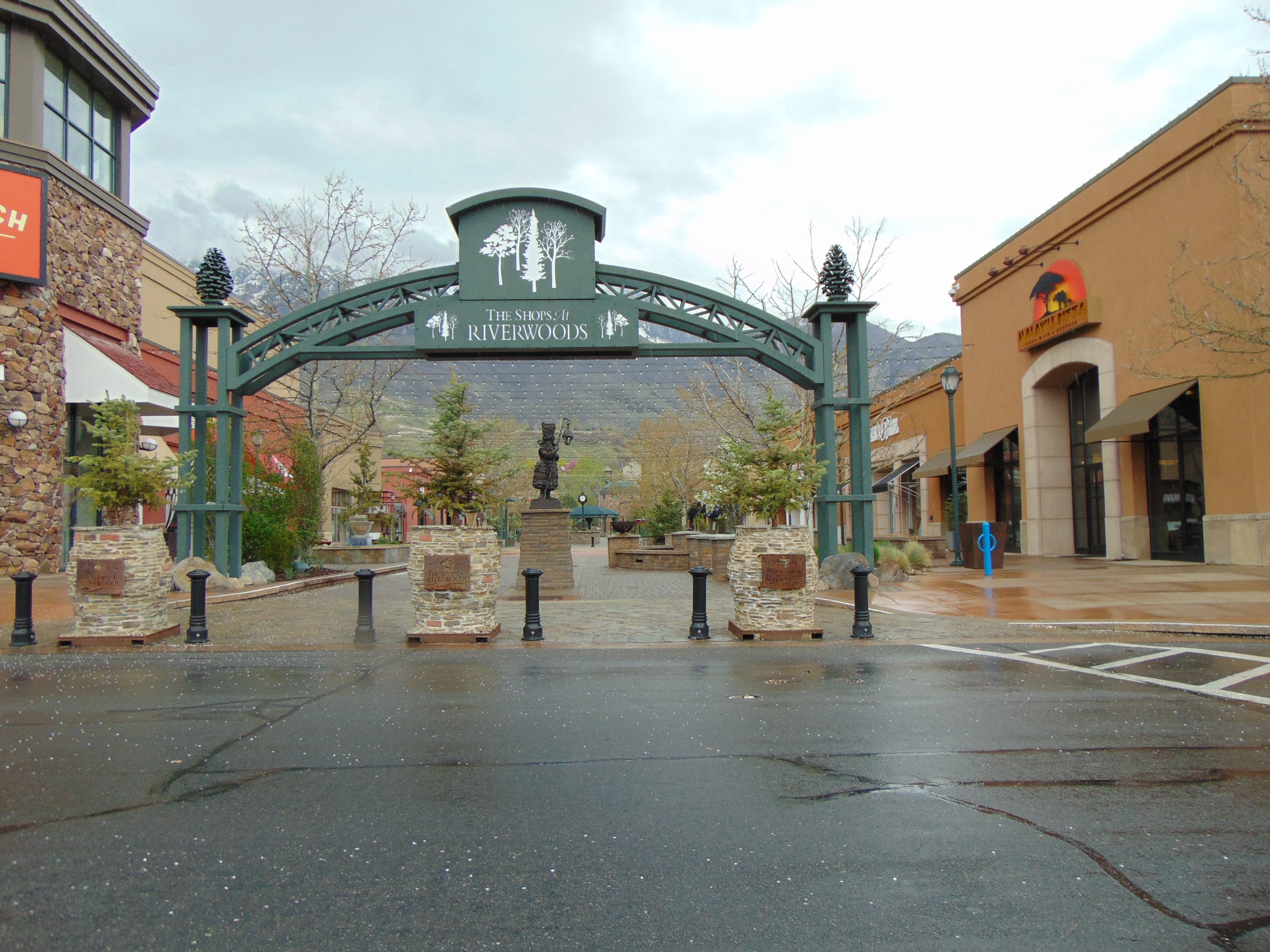 The west entrance to The Shops at Riverwoods in Provo, Utah, April 2016